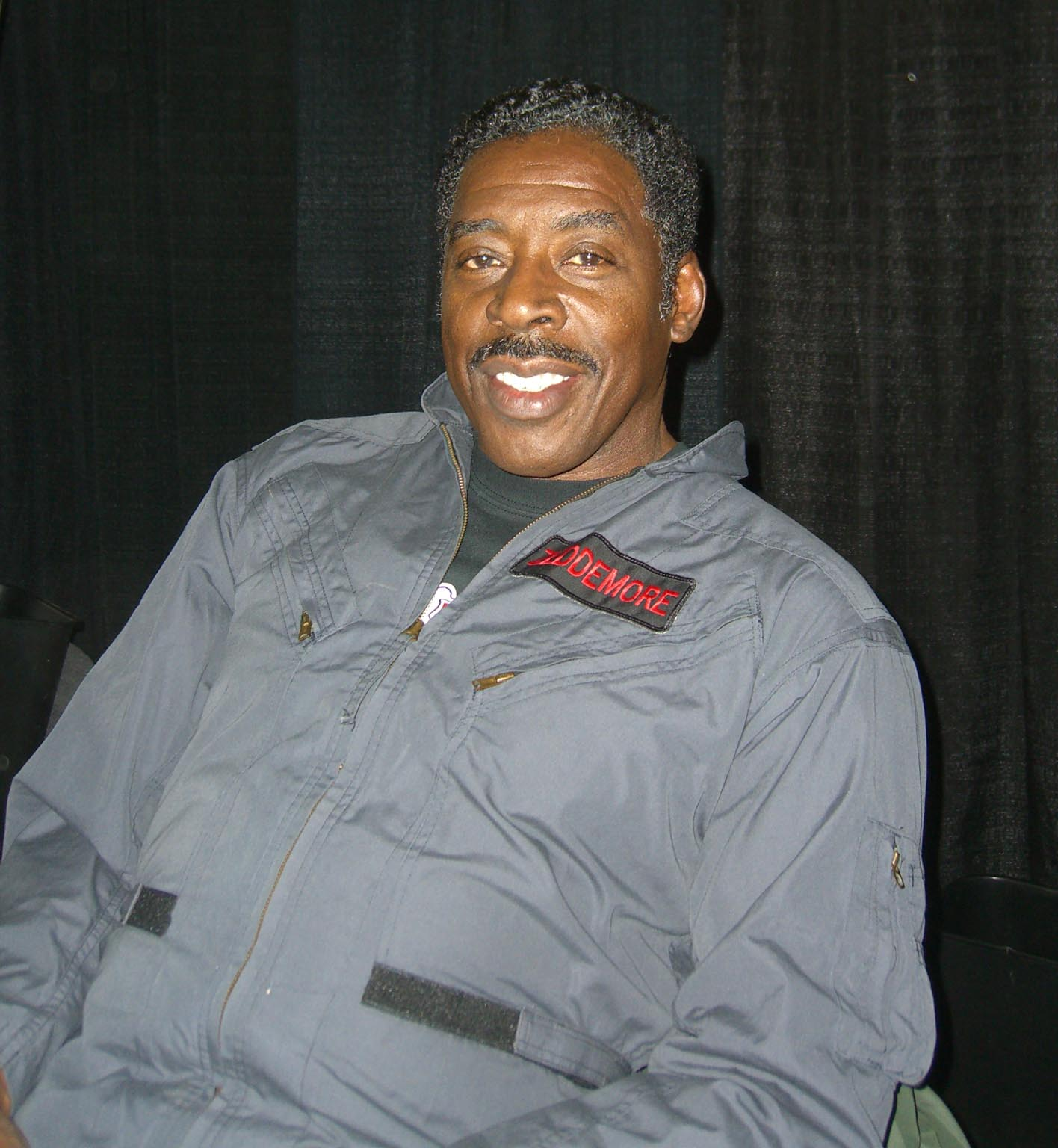 Actor Ernie Hudson at the Big Apple Convention in Manhattan. Photographed by Luigi Novi. This photo may only be used if the photographer is properly credited. (See Licensing information below.)